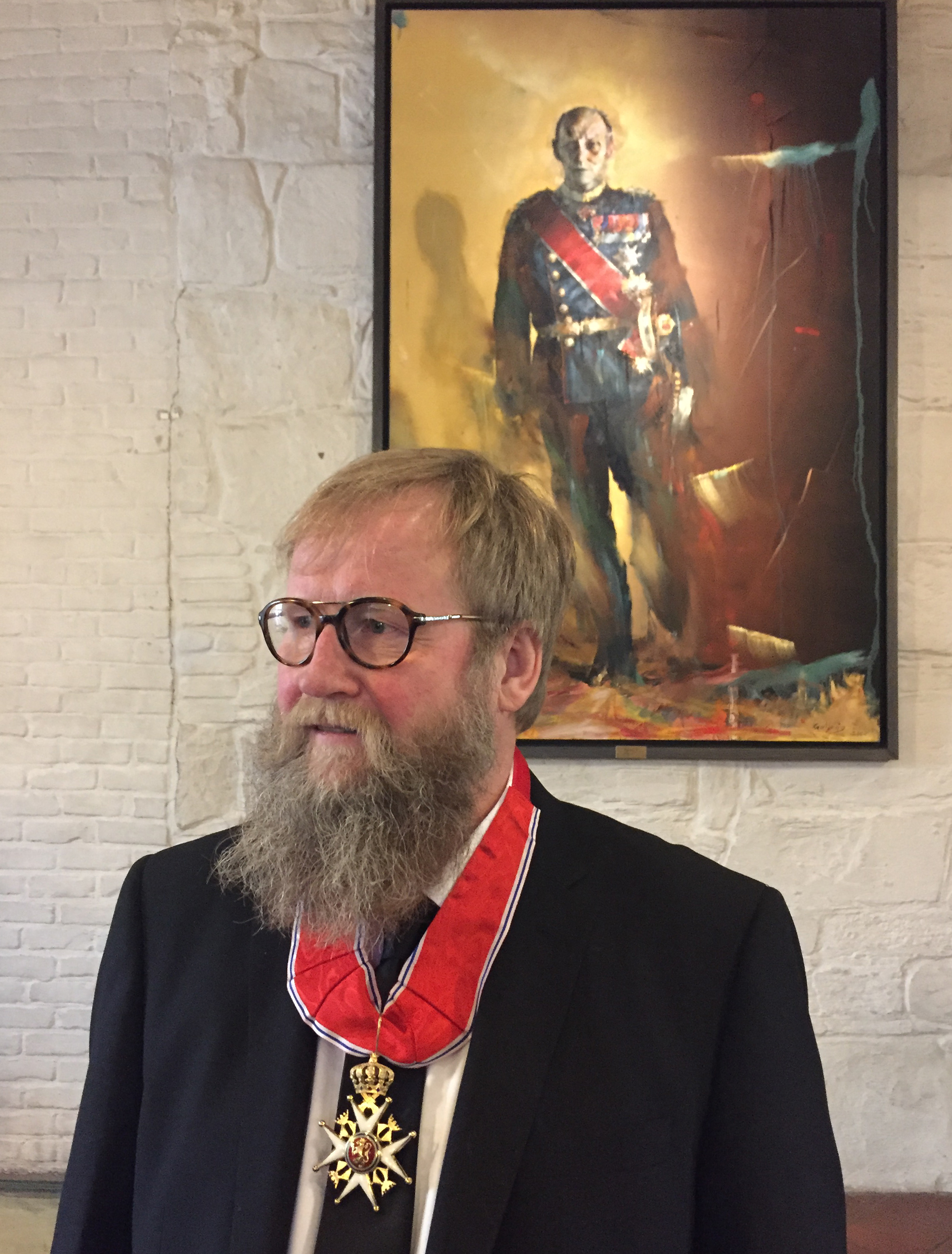 The Norwegian painter Håkon Gullvåg was appointed commander of The Royal Norwegian Order of Saint Olav on January 31st 2016 in Trondheim